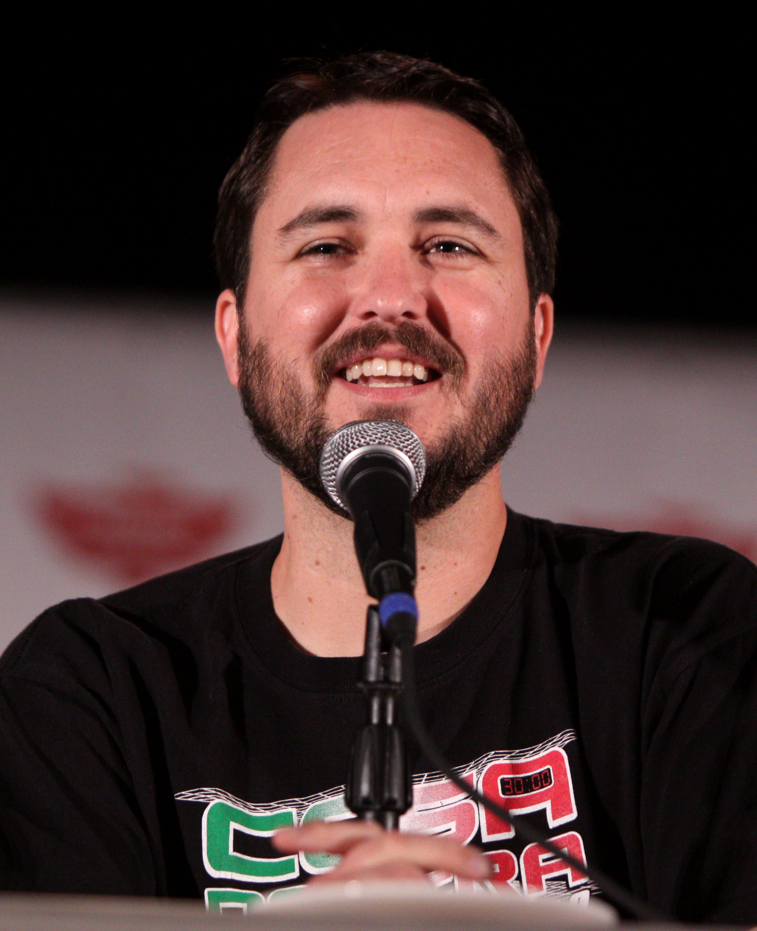 Wil Wheaton at the 2011 Phoenix Comicon in Phoenix, Arizona.